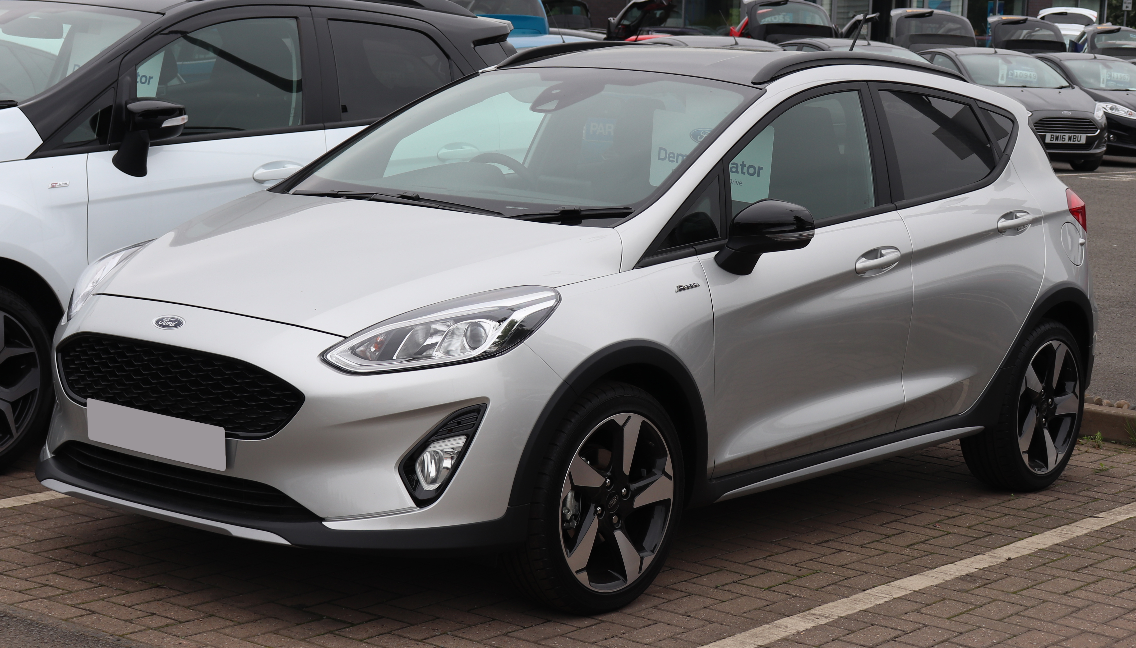 2018 DS DS7 Crossback Ultra Prestige BHD 2.0 Front Taken in Leamington Spa